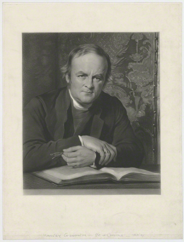 Portrait of Harvey Goodwin (1818–1891), English Bishop of Carlisle.